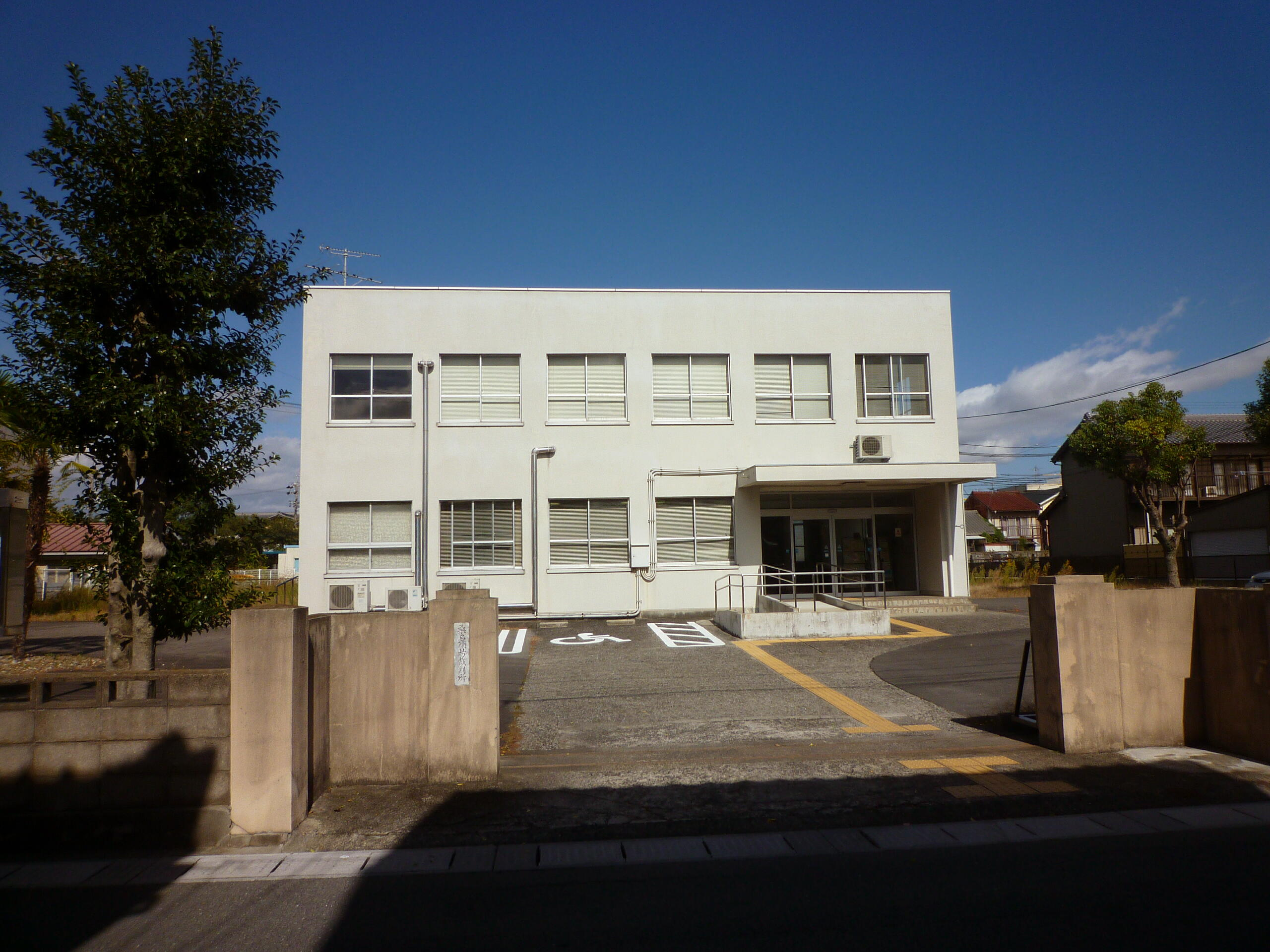 The "Kuwana Summary Court" in Kuwana, Mie, Japan.